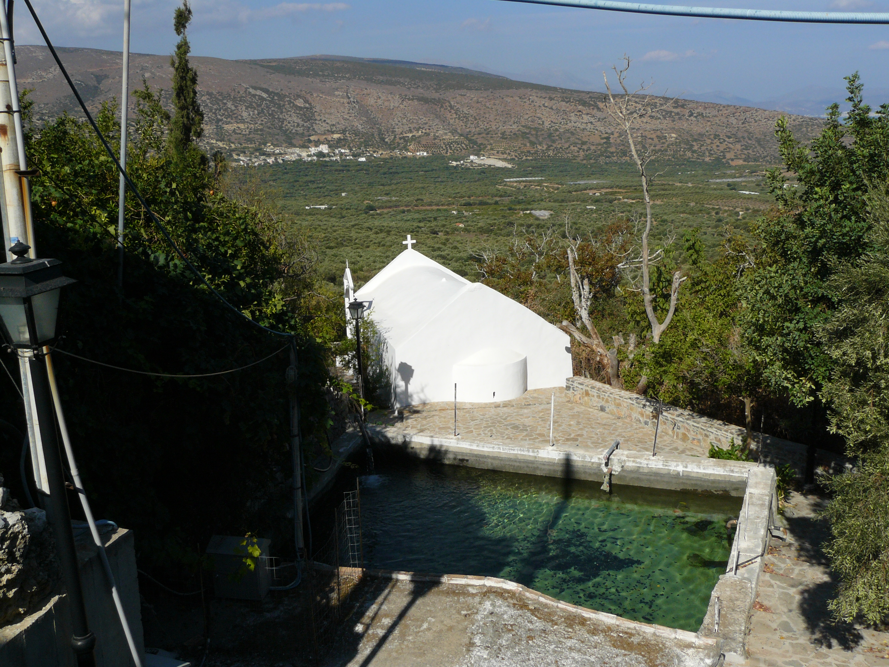 Monastiraki, regional unit Lasithi, Crete, church of Agios Stephanos